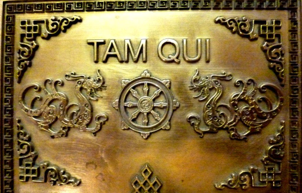 Symbols of the school Tam Qui Khi-kong